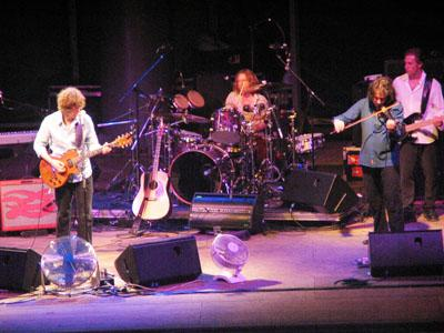 The Waterboys perform a concert at Rivierenhof in Antwerp, 2003. Mike Scott is on the far left. Geoff Dugmore is centre (on drums). Steve Wickham is second from the right. Brad Weissman is far right.